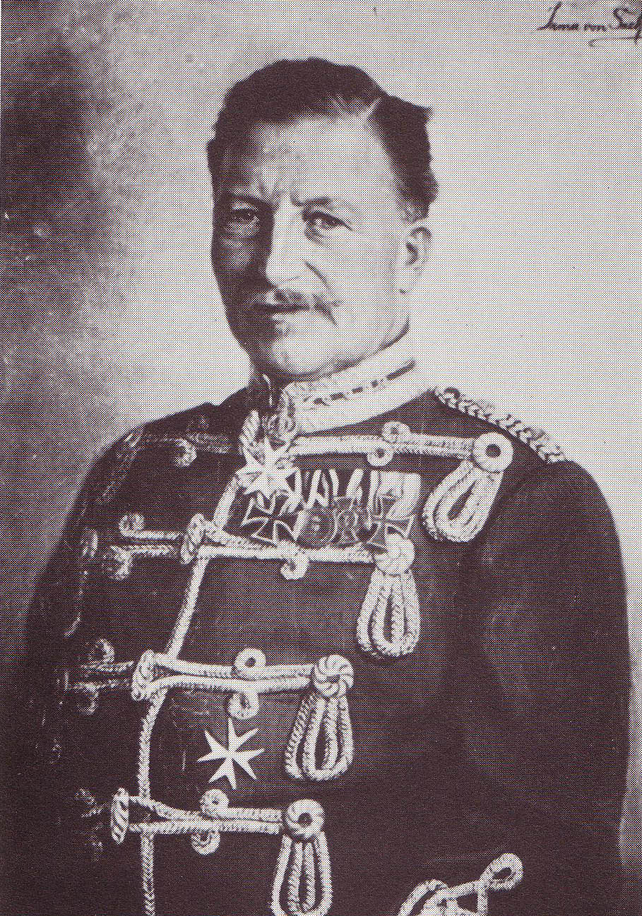 Karl von Wiedebach und Nostitz-Jänkendorf (1844-1910), member of the prussian Herrenhaus (first chamber)